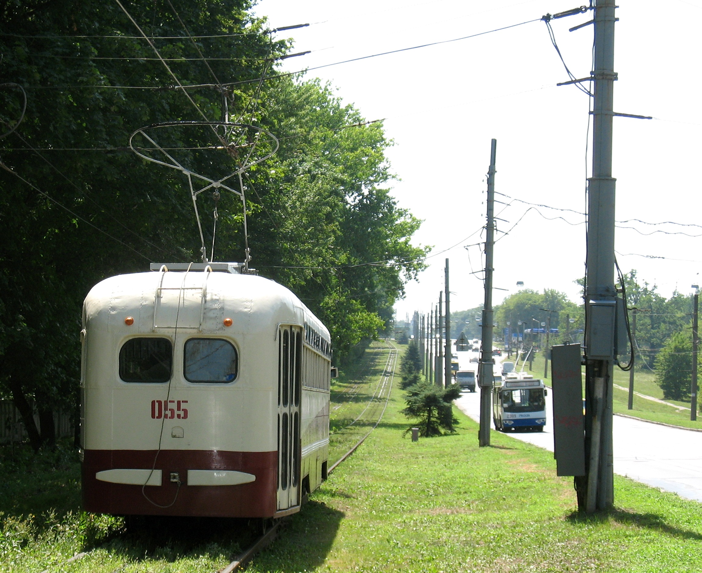 Kharkov City. Tram A.